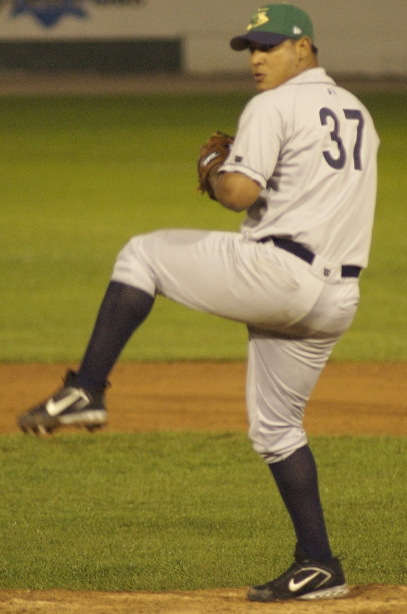 Frank Mata delivers a pitch for the Beloit Snappers in Battle Creek, Michigan in 2006.